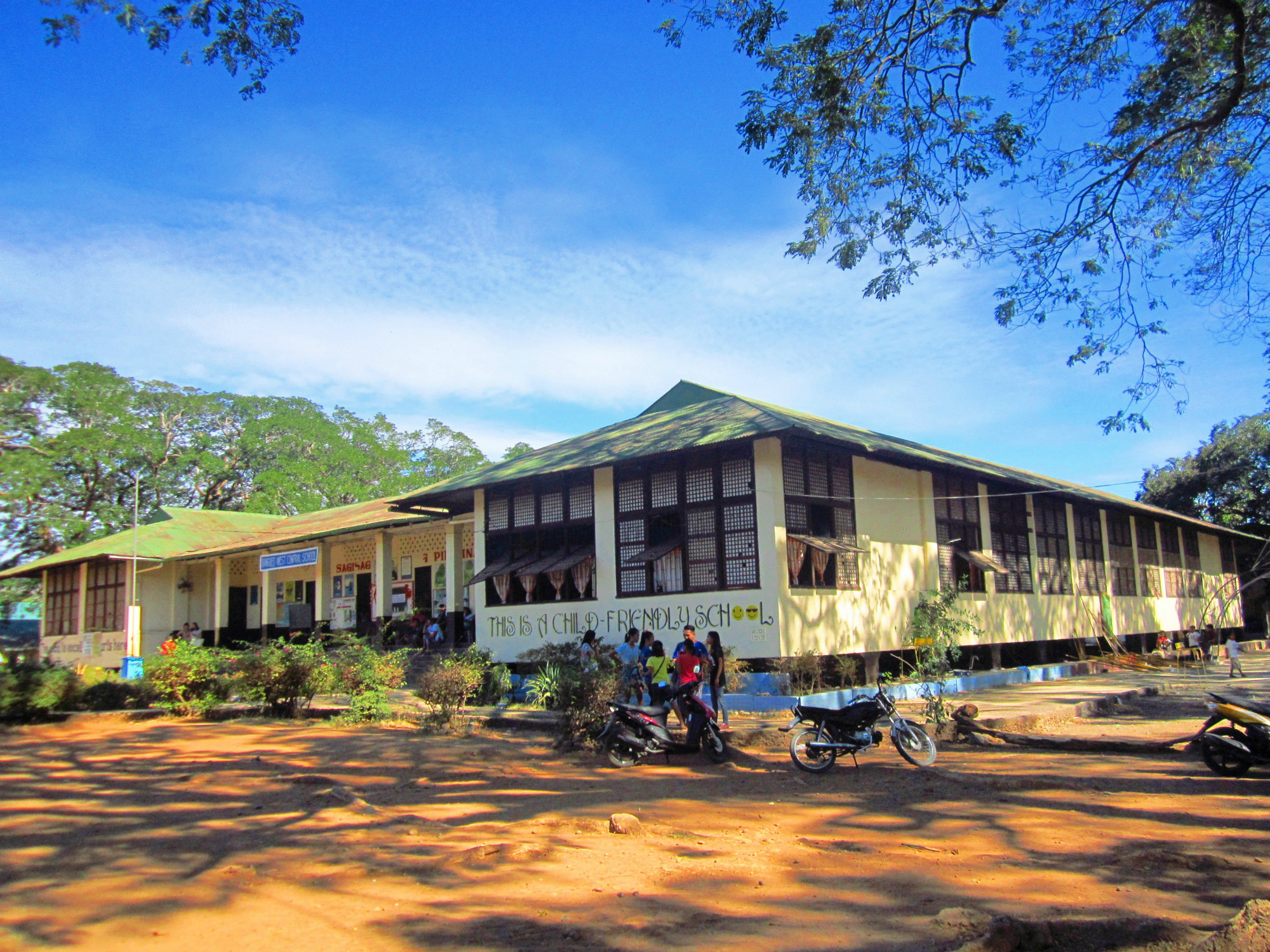 Main primary school of Bangued, capital of the province of Abra.